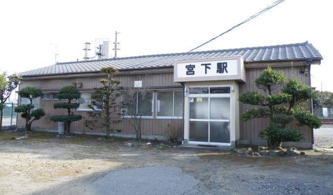 Miyashita Sta. on the Fukushima Rinkai Railway, Iwaki city, Japan.